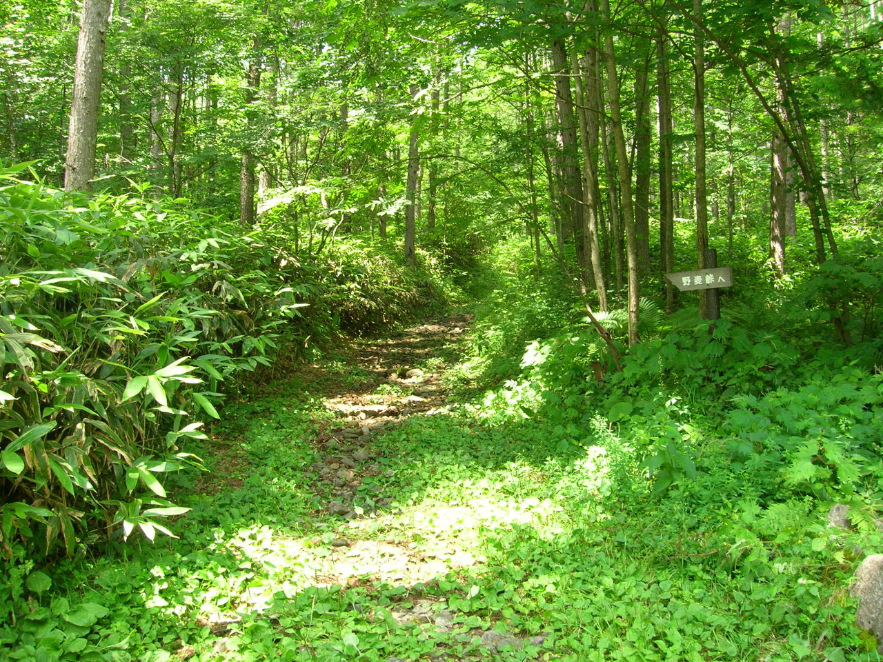 Kyu Nomugi Kaido. (Old Nomugi road.) Loc: Matsumoto city, Nagano Prefecture, Japan.